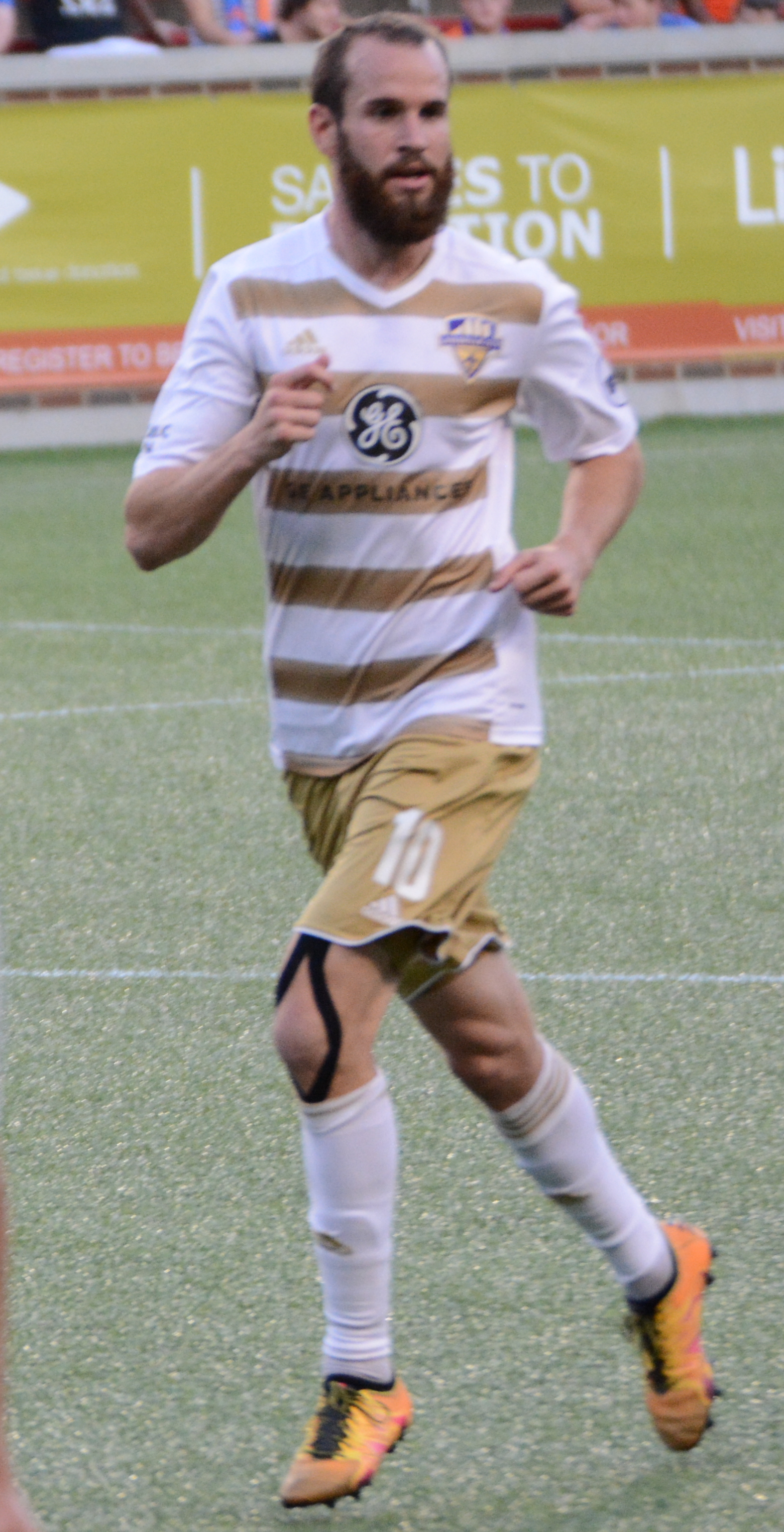 Brandon Artis, Andrew Wiedeman, Brian Ownby Taken at a Lamar Hunt U.S. Open Cup match between FC Cincinnati and Louisville City FC at Nippert Stadium in Cincinnati, Ohio on May 31, 2017.